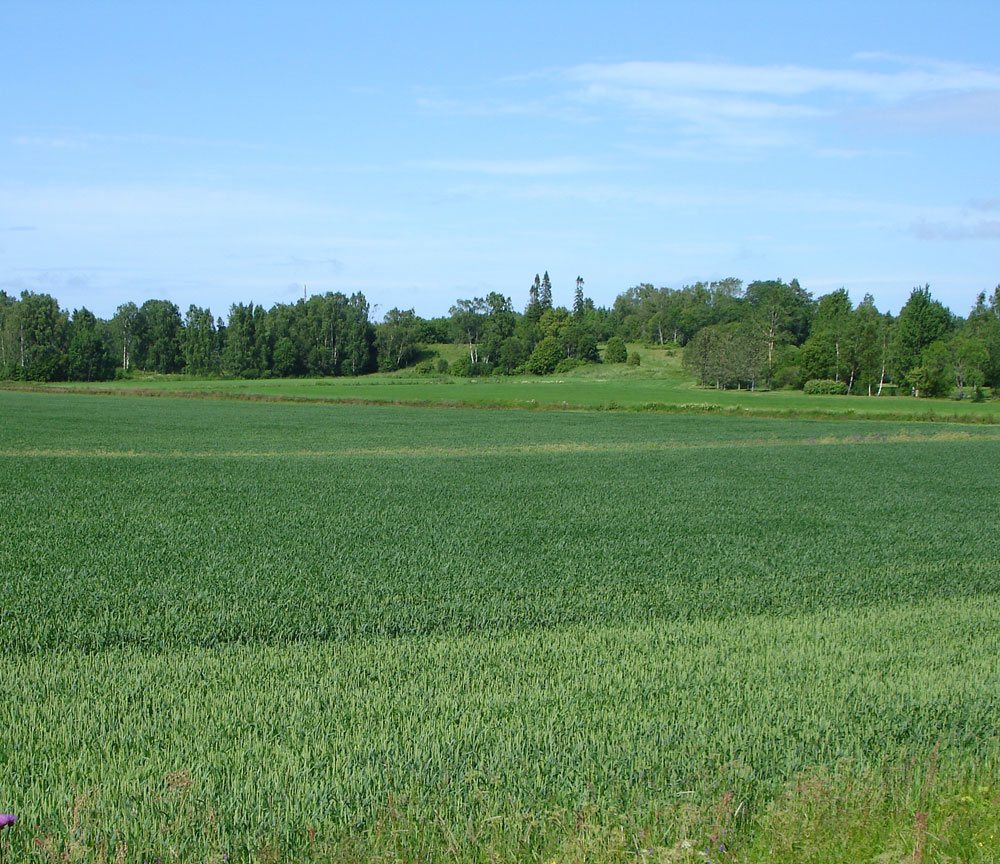 The hill where Korsholm castle was, viewed from southwest. The fields were sea when the castle was built.